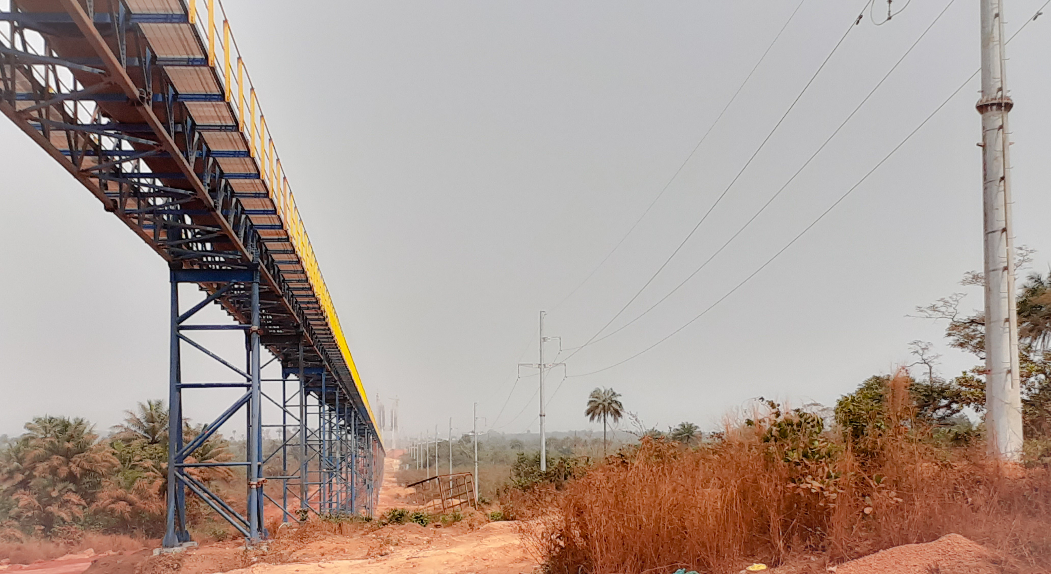 This is an image with the theme "Africa on the Move or Transport" from: Guinea